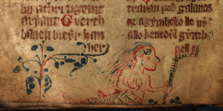 A Welsh text of the Laws of Hywel Dda, including a number of illustrations. The manuscript contains 115 folios made from parchment, and the wooden cover dates from the Middle Ages.